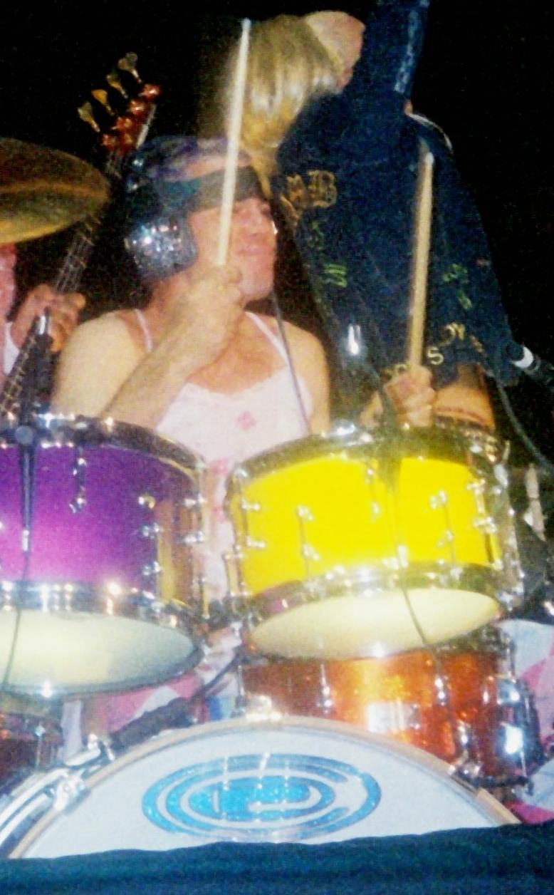 Adrian Young performing with No Doubt in Worcester, Massachusetts, United States